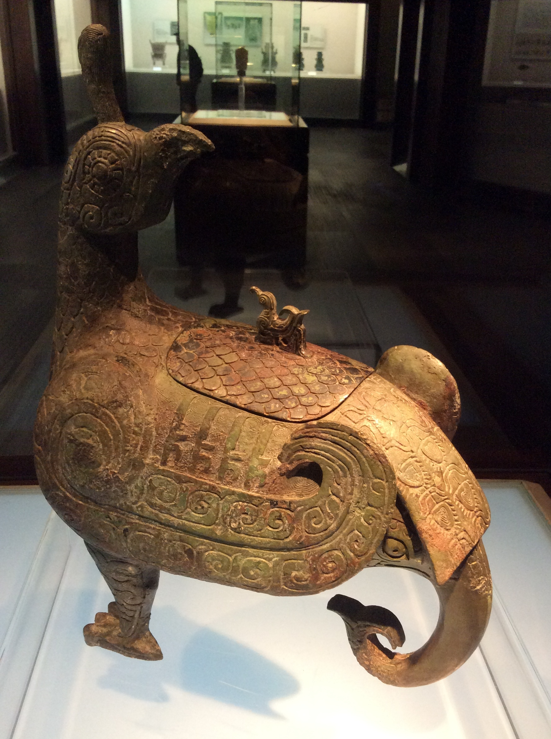 Note the bird and elephant hybrid design.